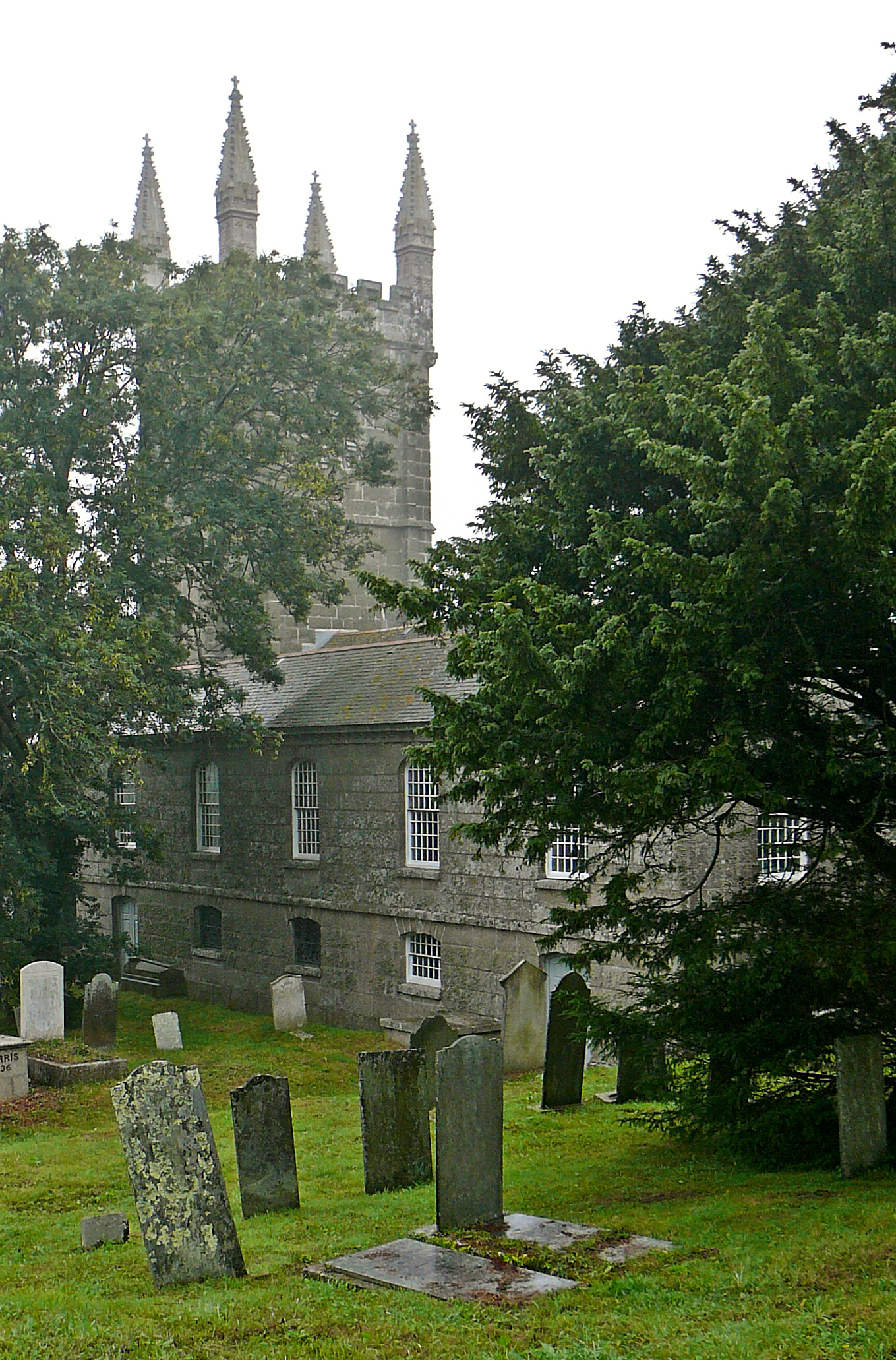 St Euny, Redruth